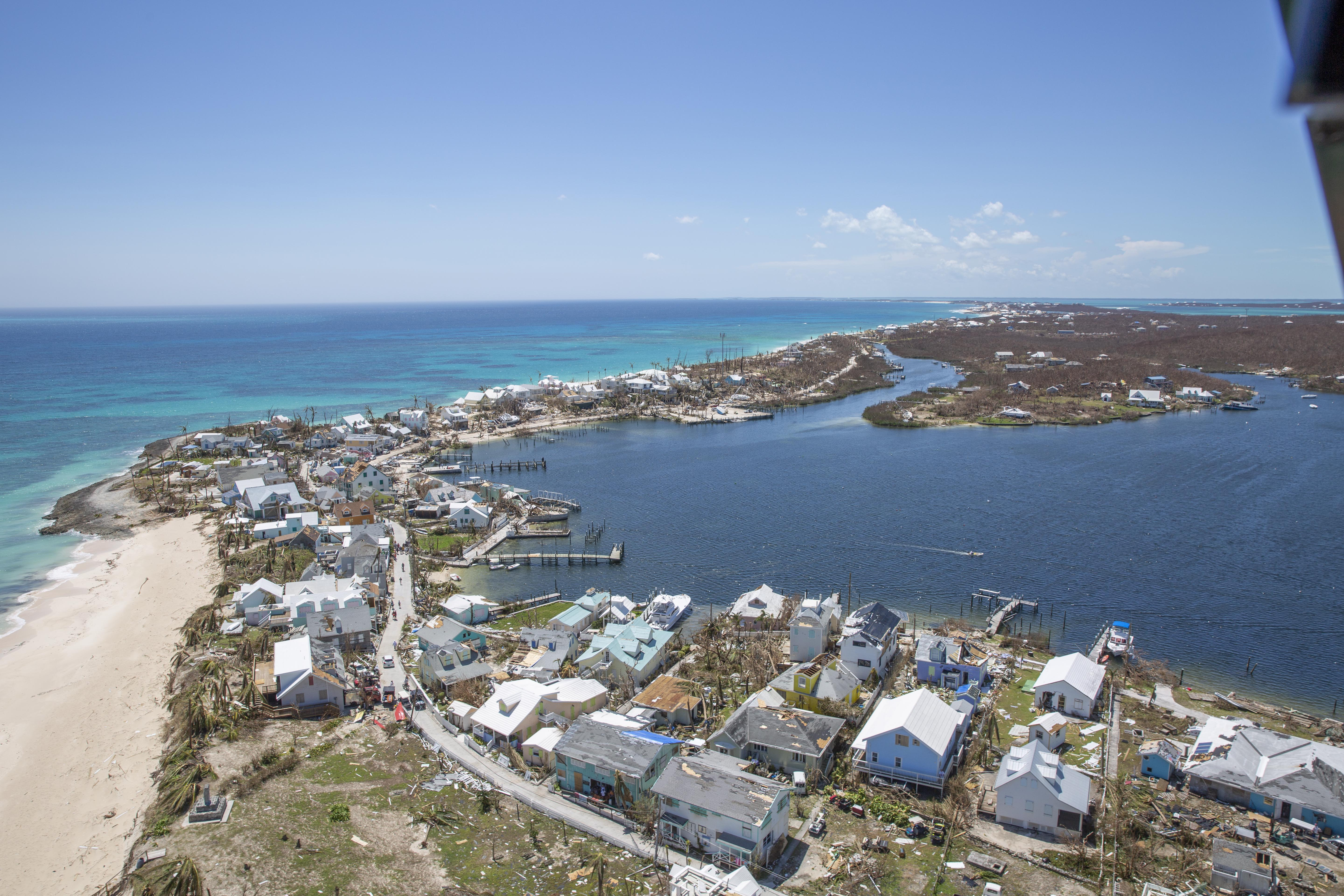 CBP Air and Marine Operations agents conduct search and rescue operations in Abaco Island and Marsh Harbour Bahamas on Sept. 5, 2019. The islands were devastated by Hurricane Dorian. CBP Photo Kris Grogan